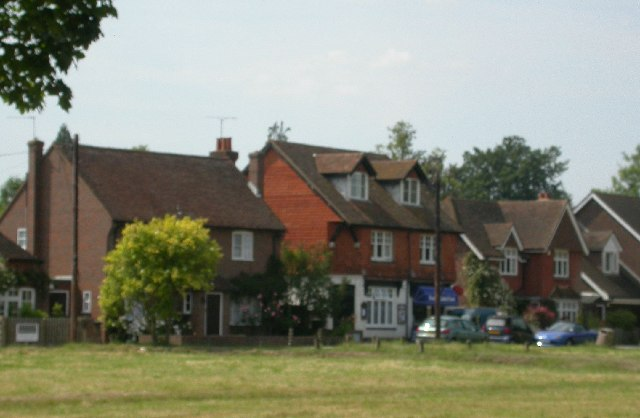 Dunsfold. Village shop in the picturesque village of Dunsfold.